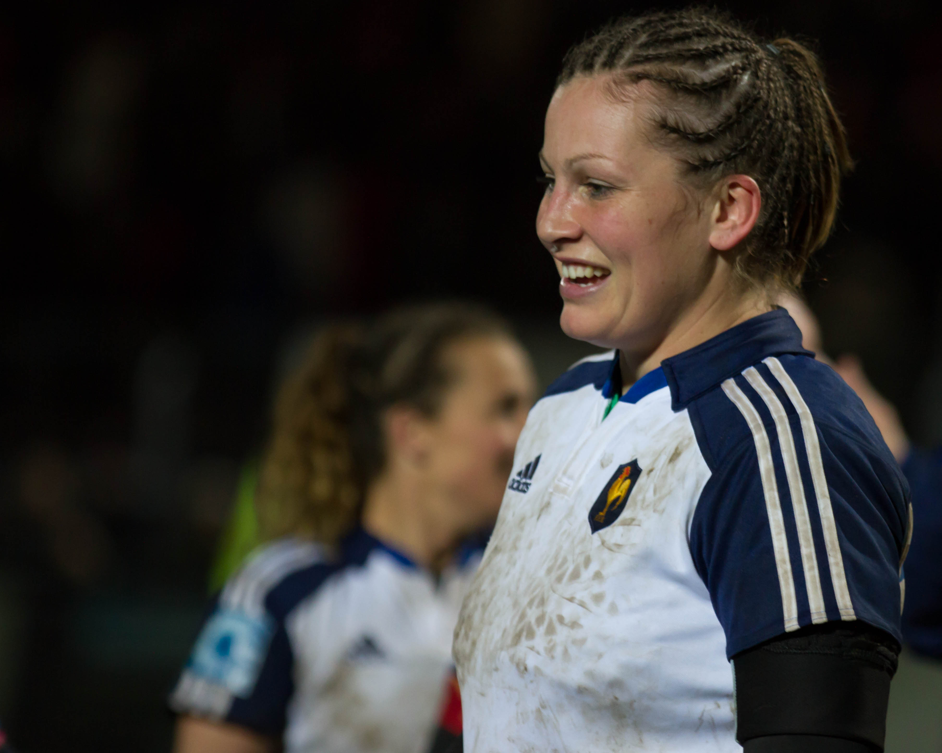 2014 Women's Six Nations Championship — 9 February 2014, Stade Ernest Argeles. Match between: France women's national rugby union team — Italy women's national rugby union team